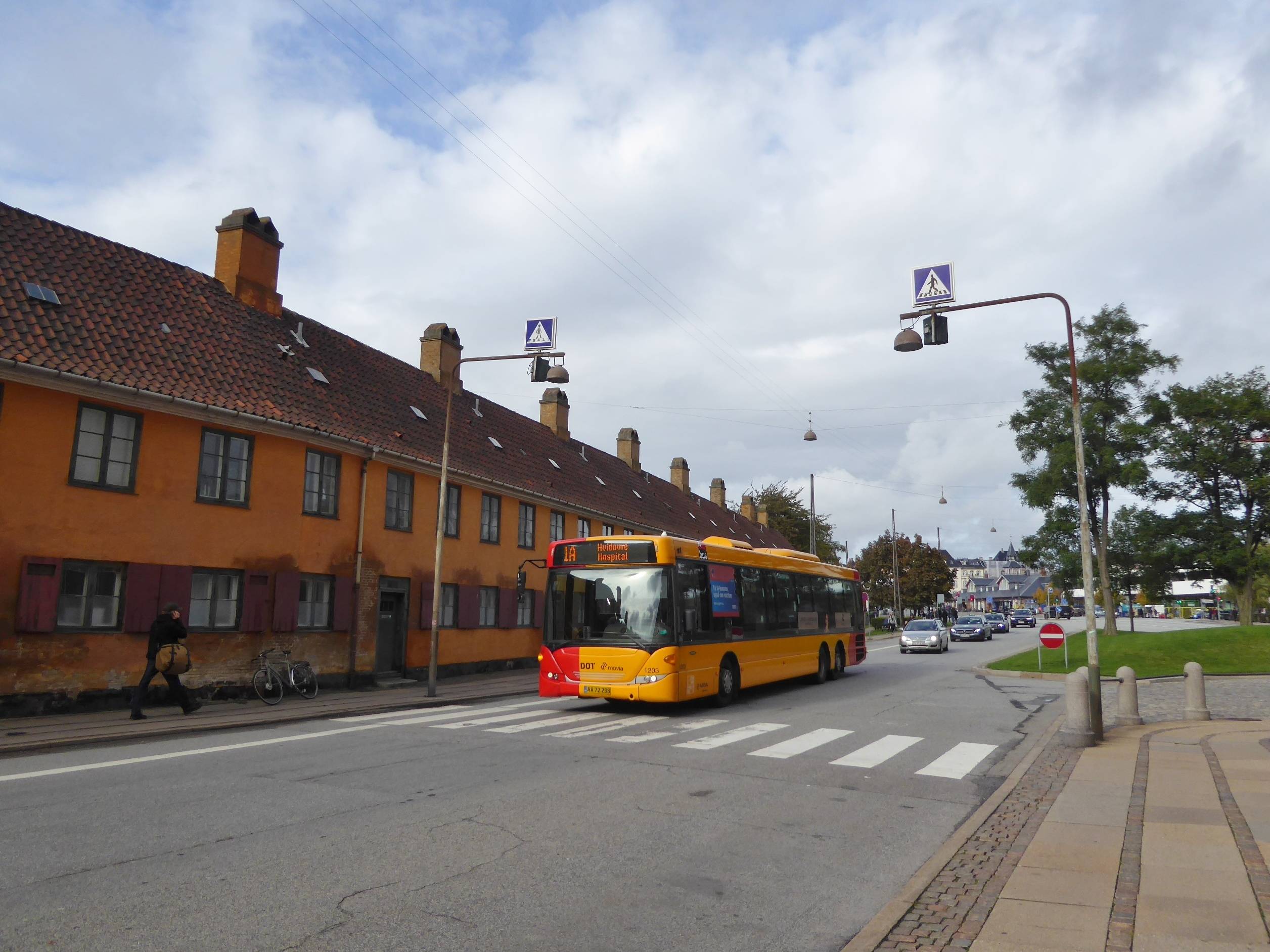 Movia bus line 1A on Store Kongensgade at Nyboder in Indre By in Copenhagen. The next day line 1A got a new route and this part of Store Kongensgade would no longer be served by buses.